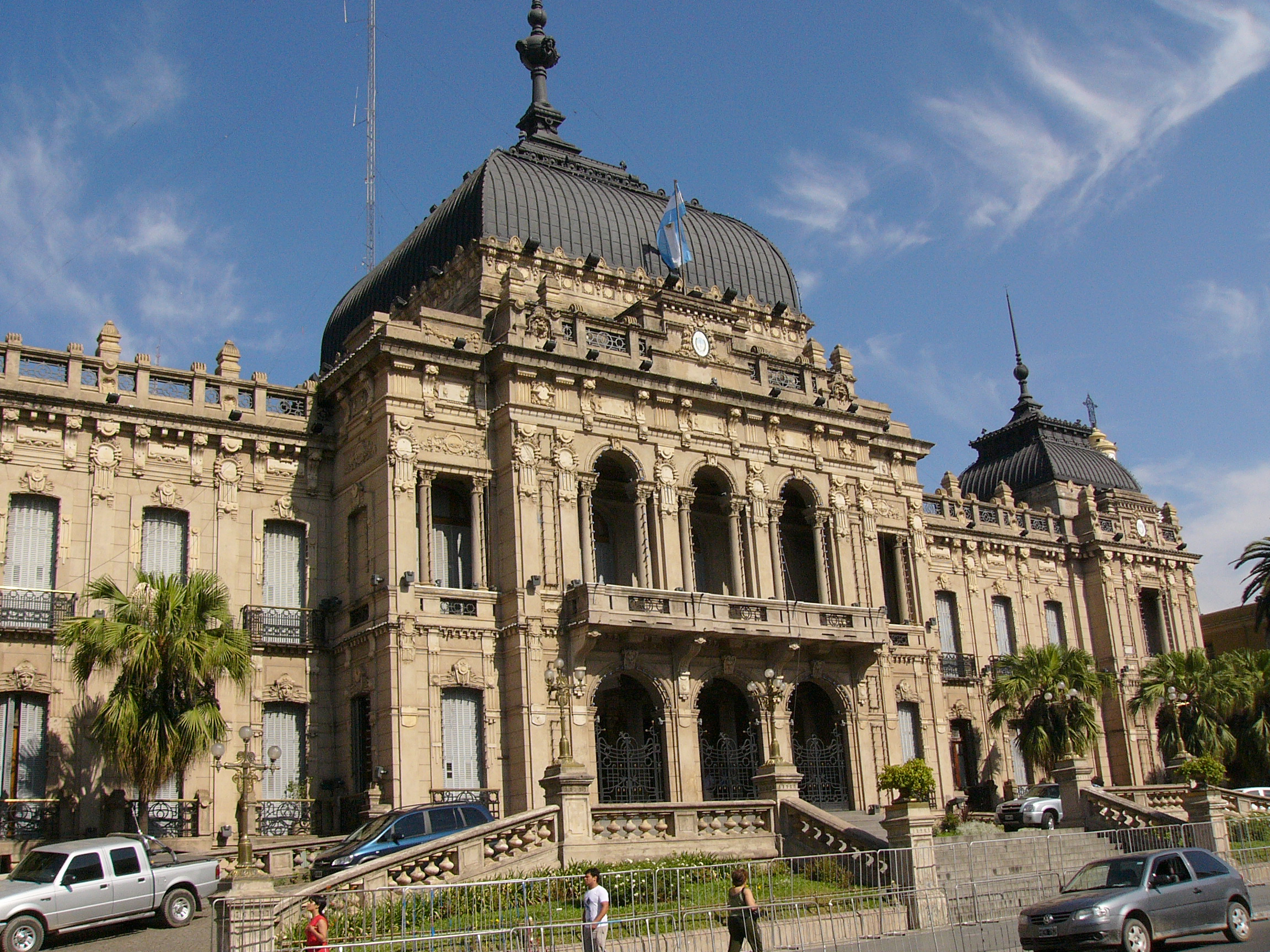 Government Palace (Casa de Gobierno) of Tucumán, Argentina